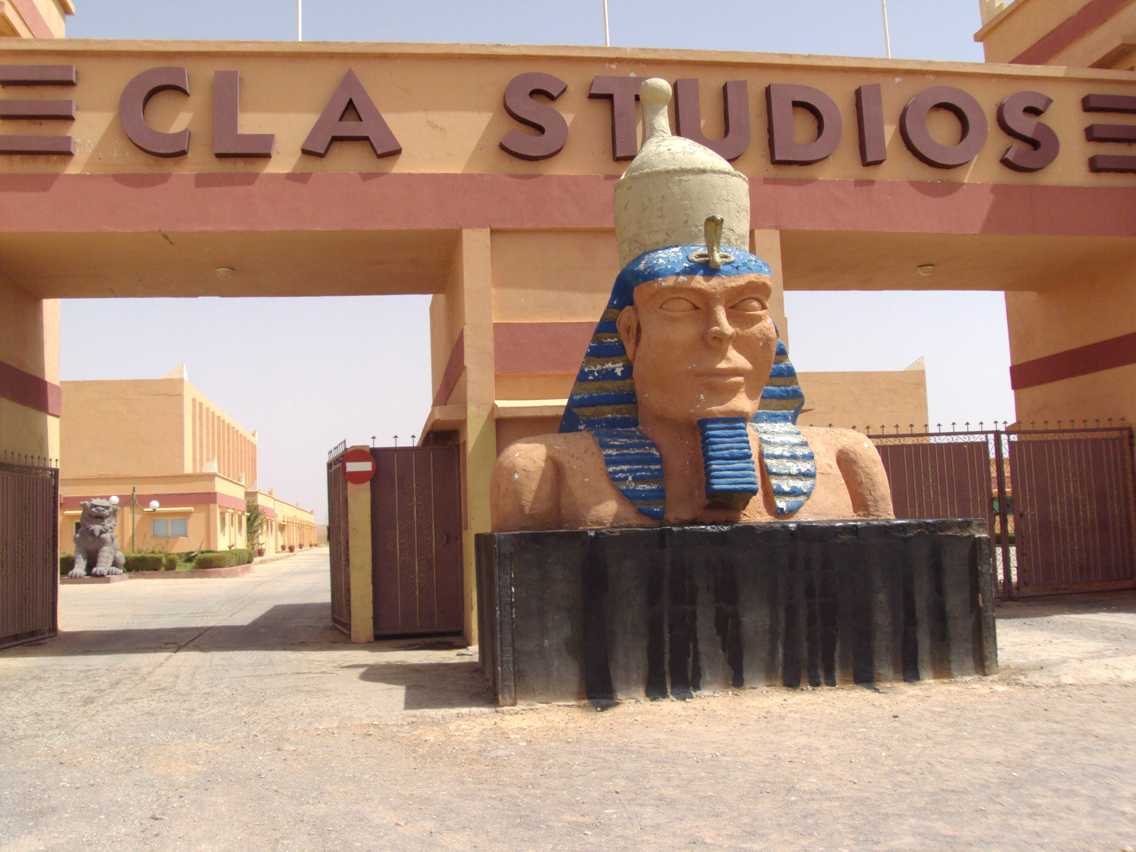 This is an image with the theme "Play" from: Morocco